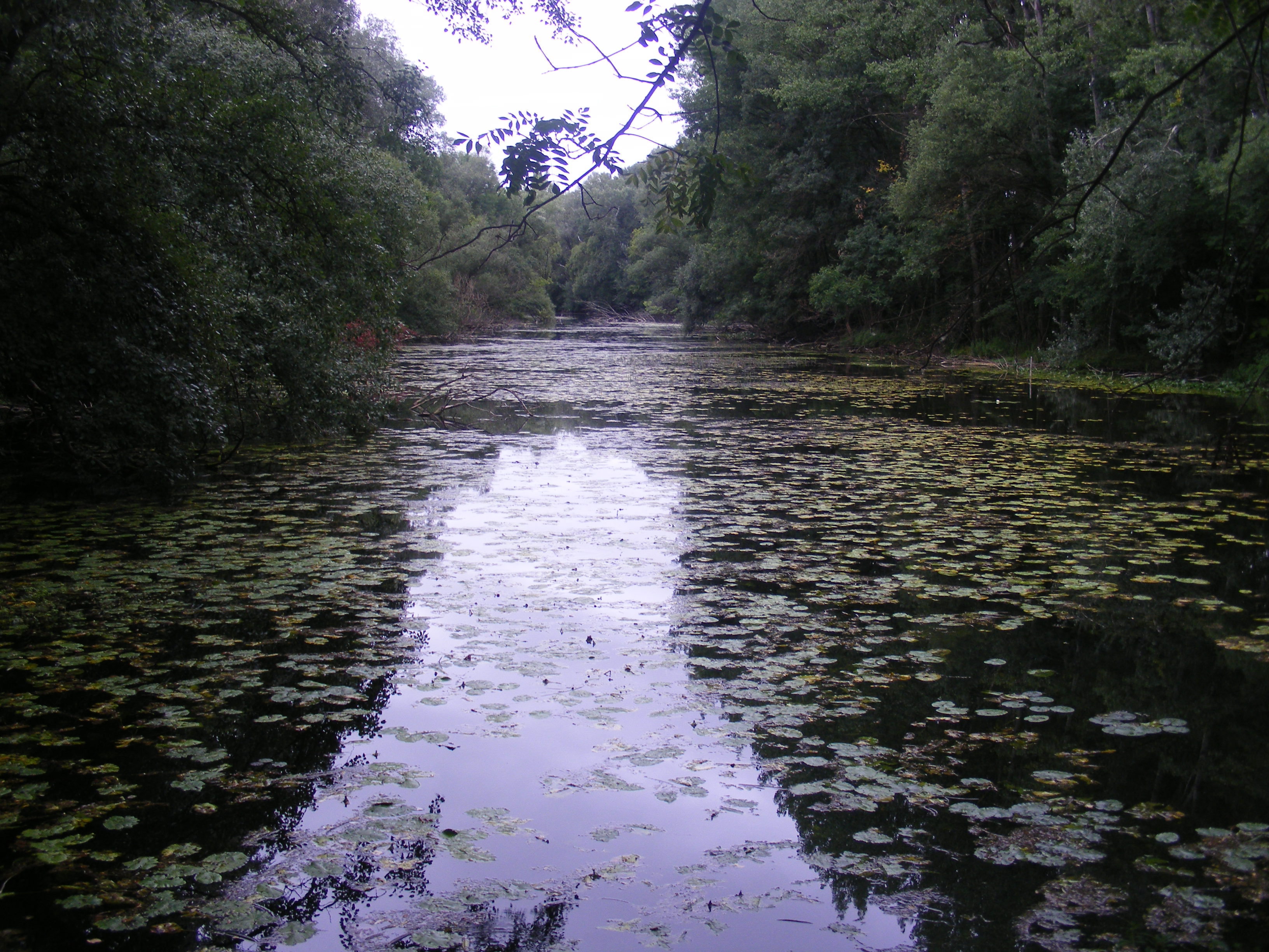 The Little Danube near Dunajský Klátov, Slovacia